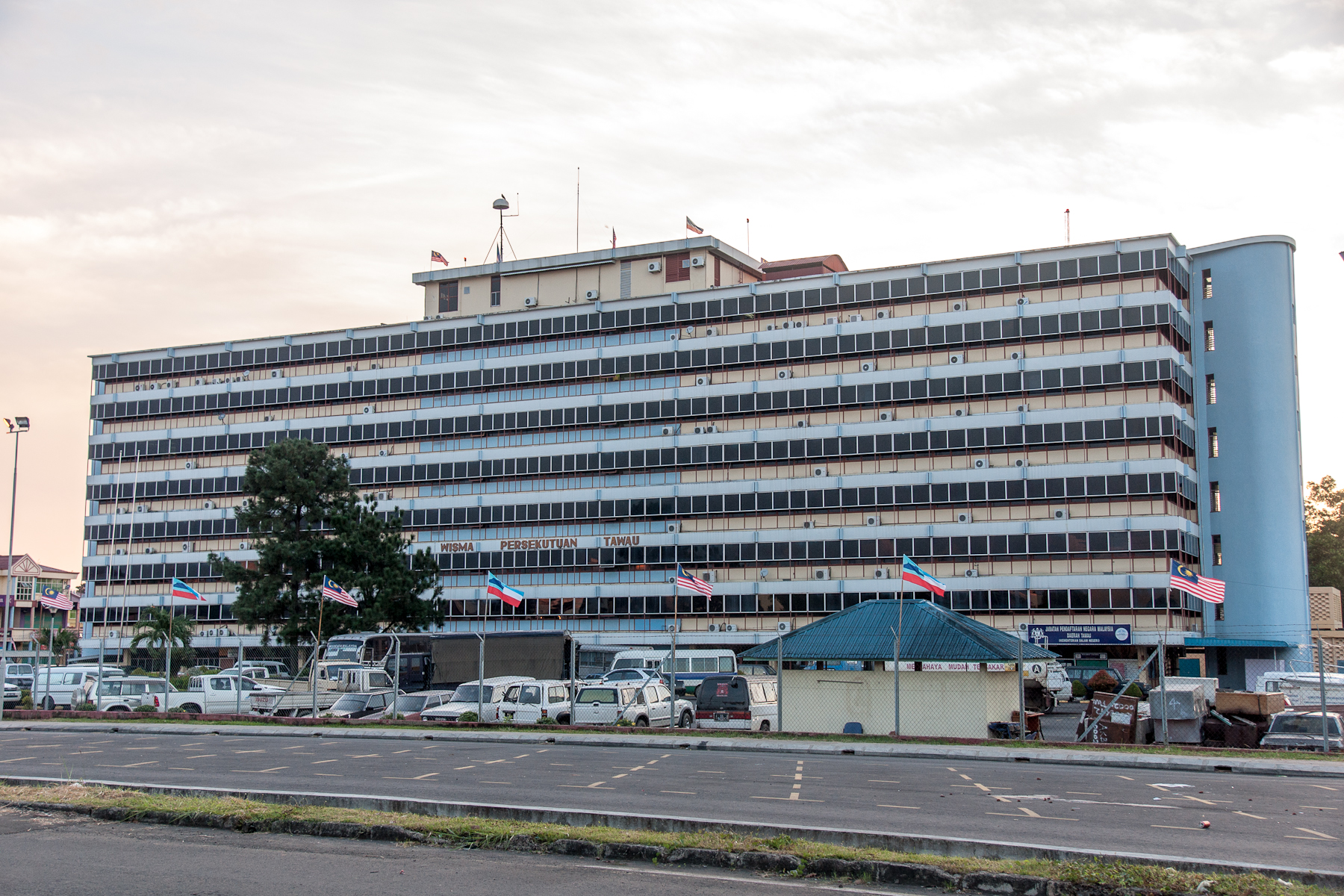 Tawau, Sabah, Malaysia: Wisma Persekutuan Tawau - Federal Offices and Services, including Immigration Office (Imigresen)